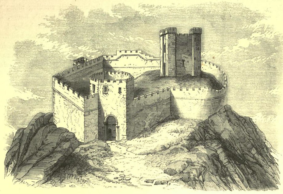 Clitheroe Castle c.1650 from "An history of the original Parish of Whalley, and honor of Clitheroe" 4th ed. page 255